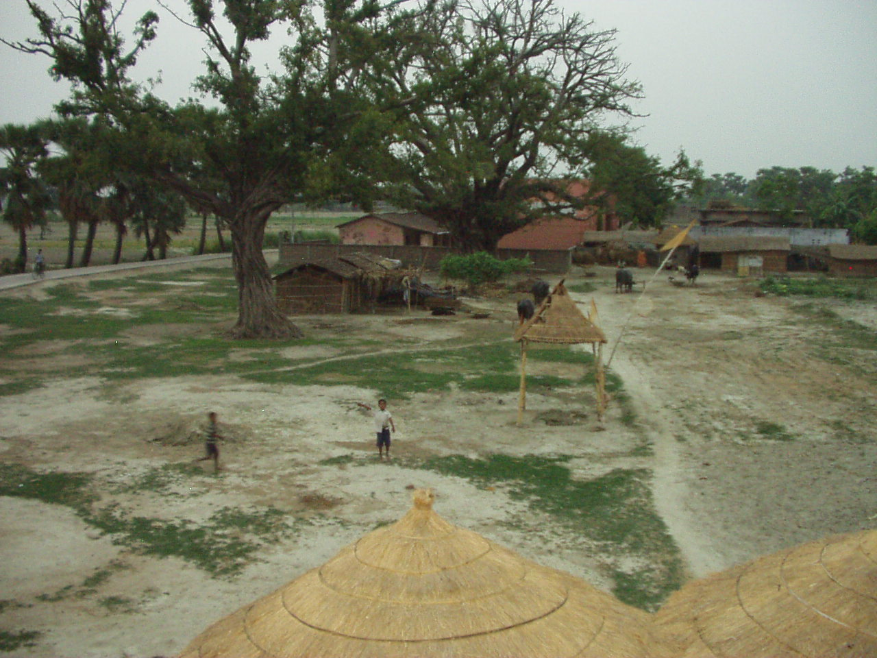 Govindpur Jhakhraha: A panoramic scene of the village